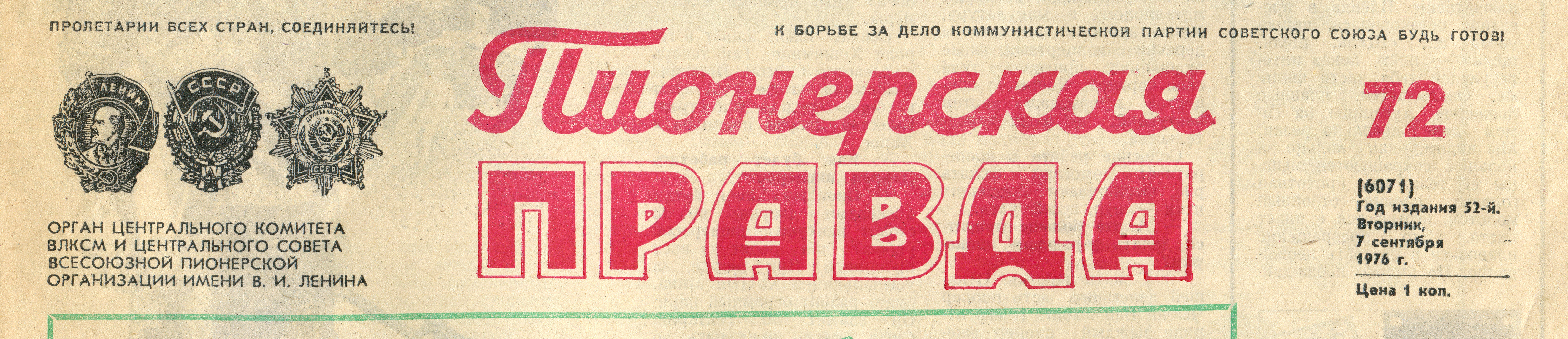 USSR. Newspapers Pionerskaya Pravda. The organ of the Central Committee of the Komsomol and the Central Council of the All-Union Pioneer Organization named after V.I. Lenin.